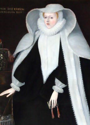 Portrait hanging in the Great Hall at Bisham Abbey, Berkshire, UK.